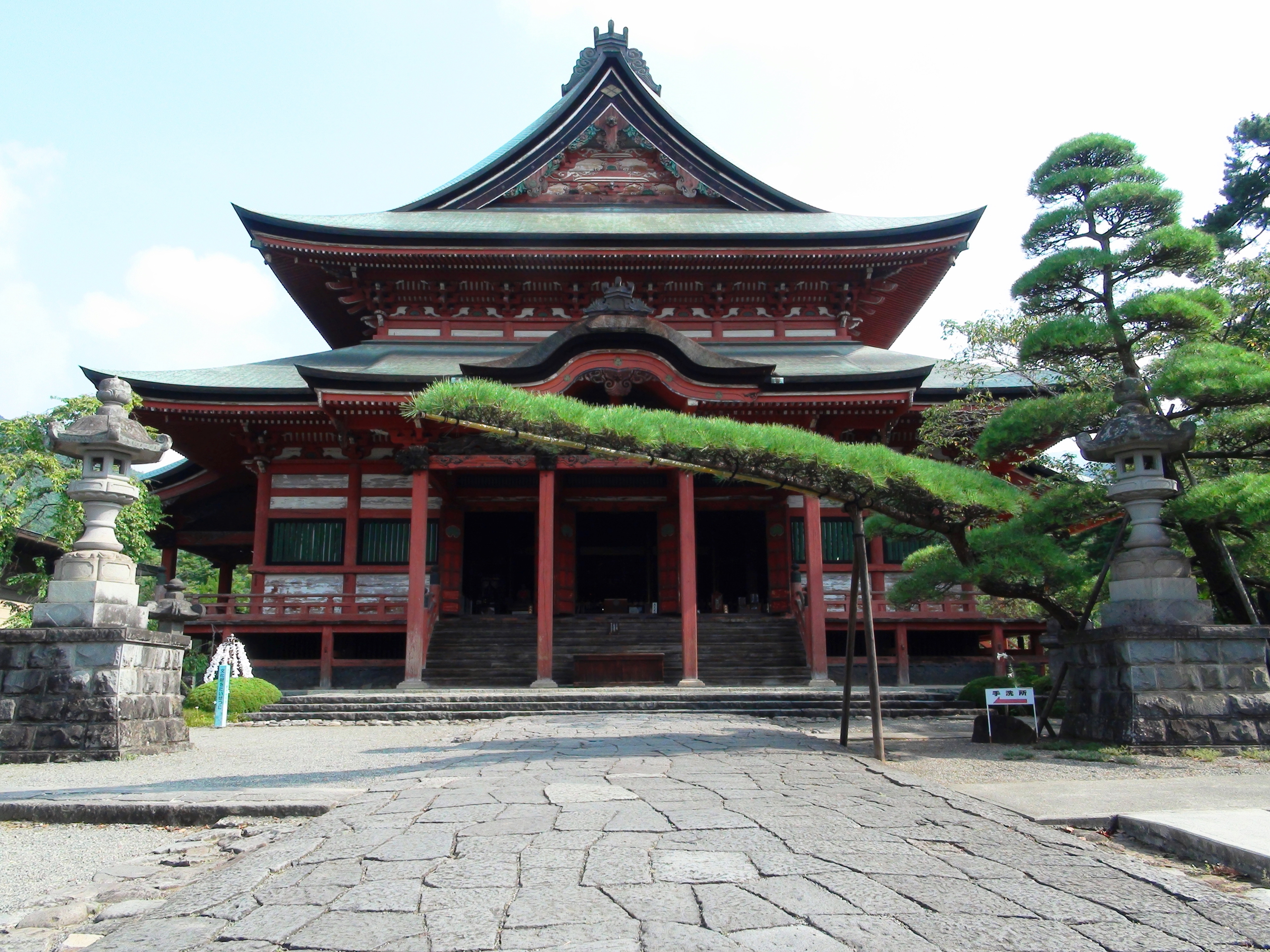 Kai-Zenkoji-temple main hall of a Buddhist temple Kofu-city Yamanashi Japan